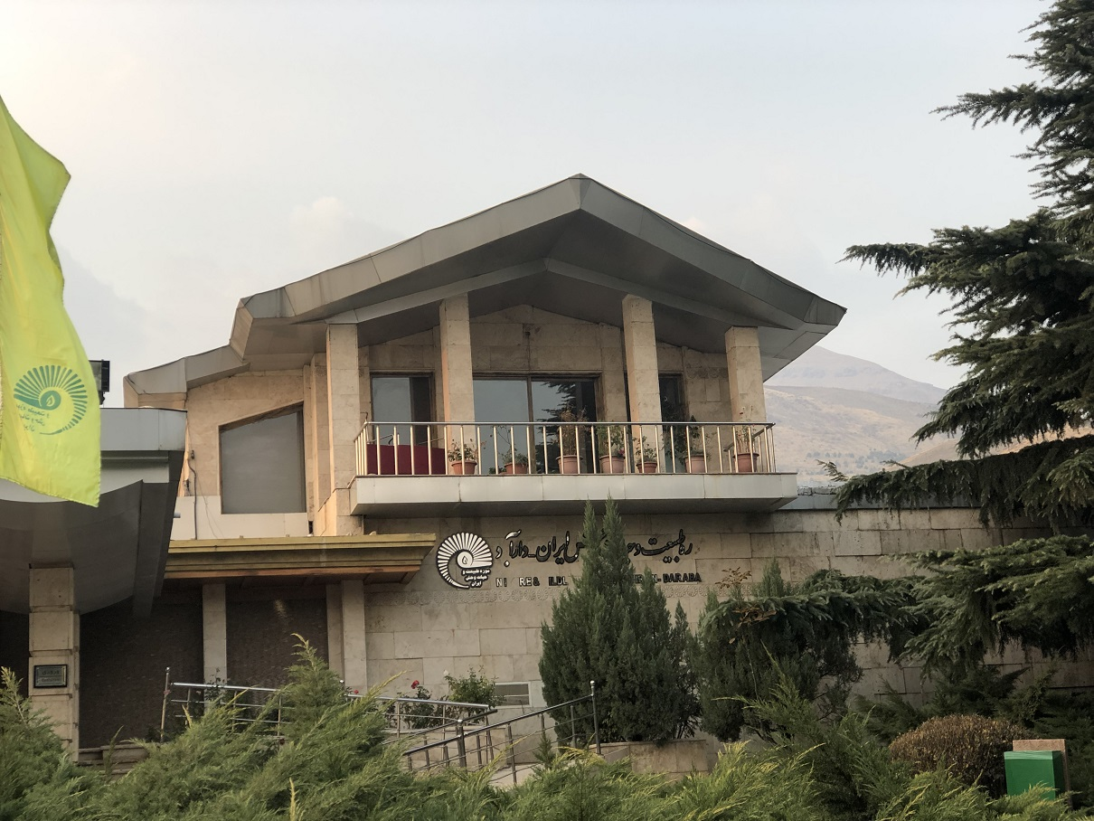 Darabad Museum